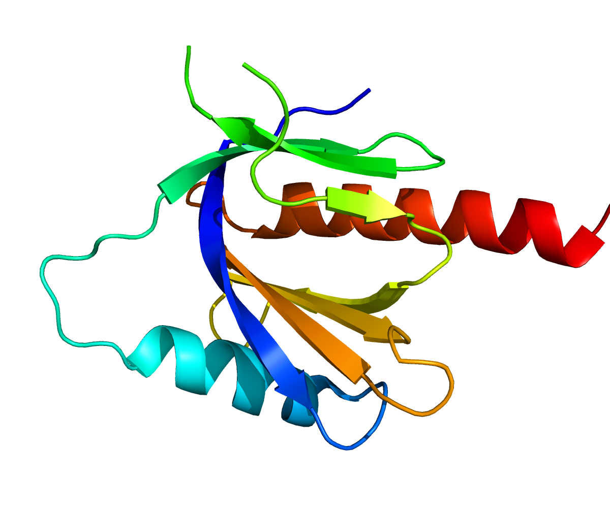 Structure of protein APBB3.Based on PyMOL rendering of PDB 2DYQ.